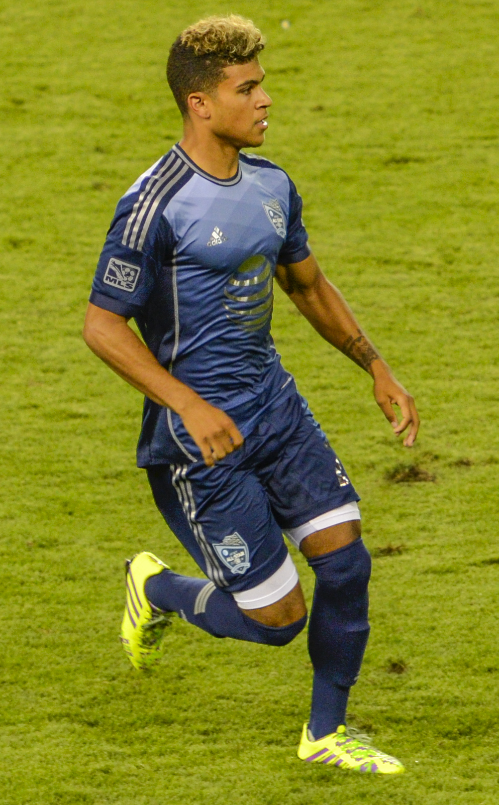 DeAndre Yedlin in the MLS 2013 All Star game at Sporting Park, Kansas City, Kansas on 31JUL2013